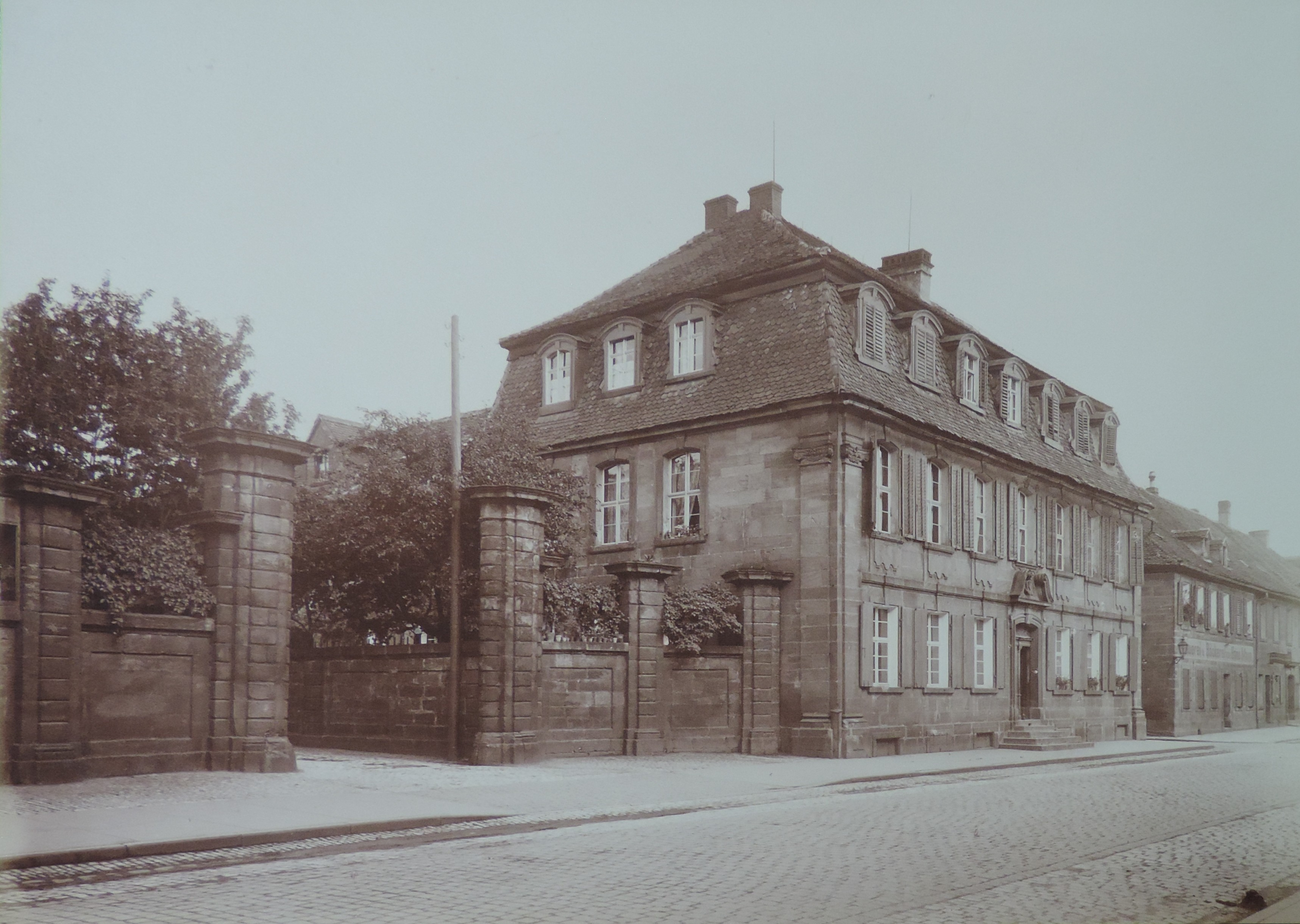 Views and photos of Bayreuth, Germany, gifted to Ferdinand I of Bulgaria to commemorate his 25-year rule. A house from 1752 on Friedrichstrasse str.